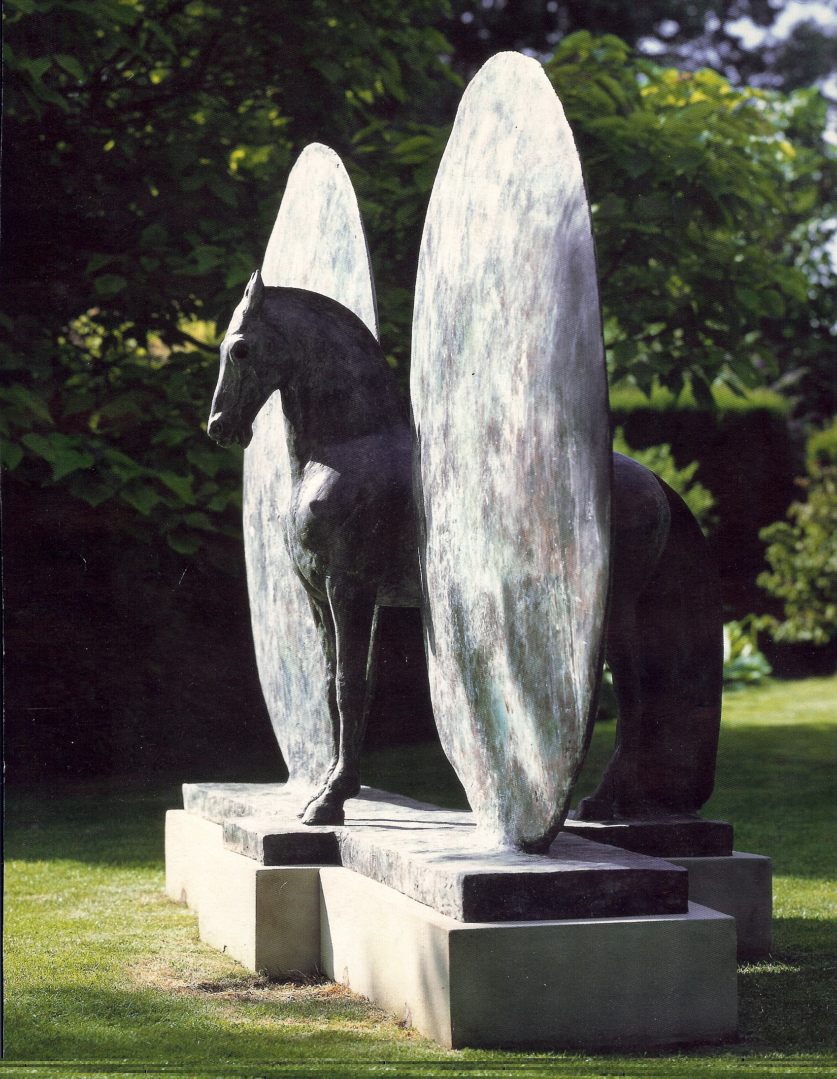 Union (Horse with Two Discs) 1999-2000 by Christopher Le Brun. Cast three times in bronze. Installed at the New Art Centre, Roche Court, Wiltshire.